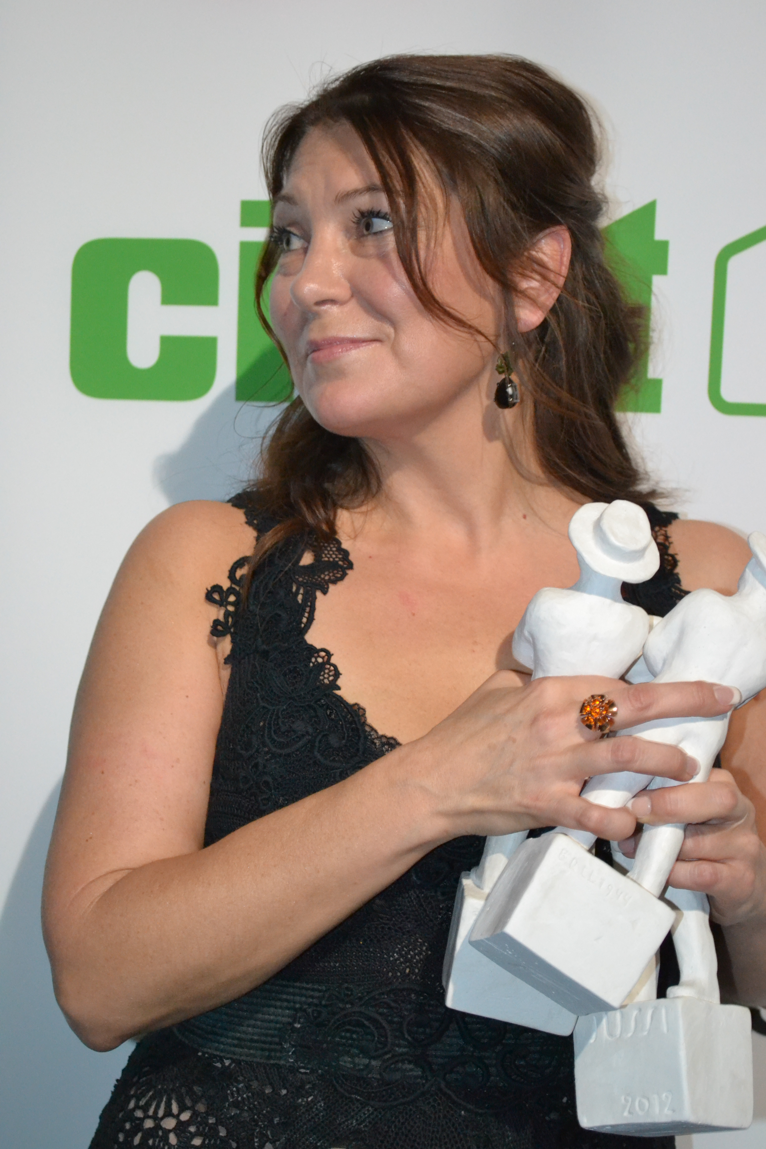 Maarit Lalli in 2013 Jussi Awards.